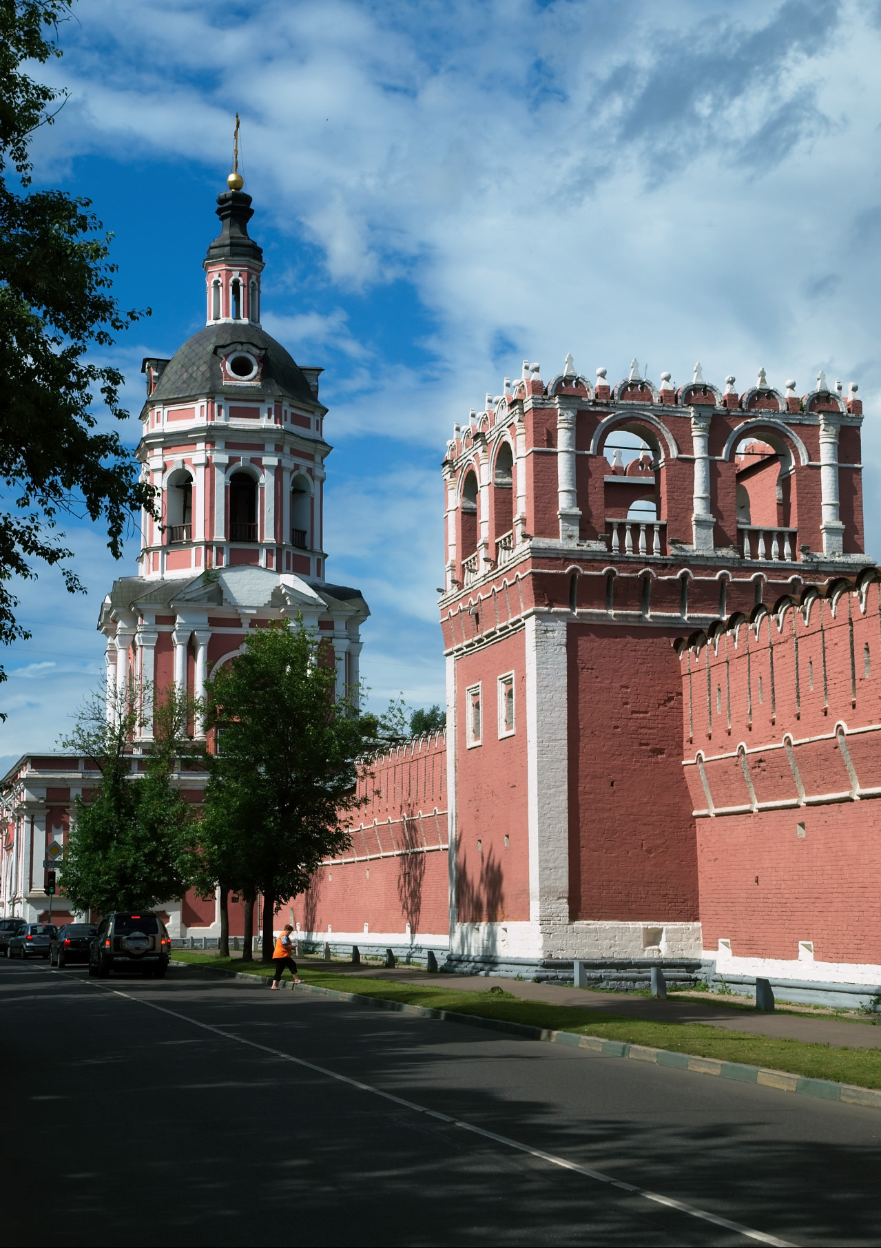 Walls of Donskoy Monastery in Moscow